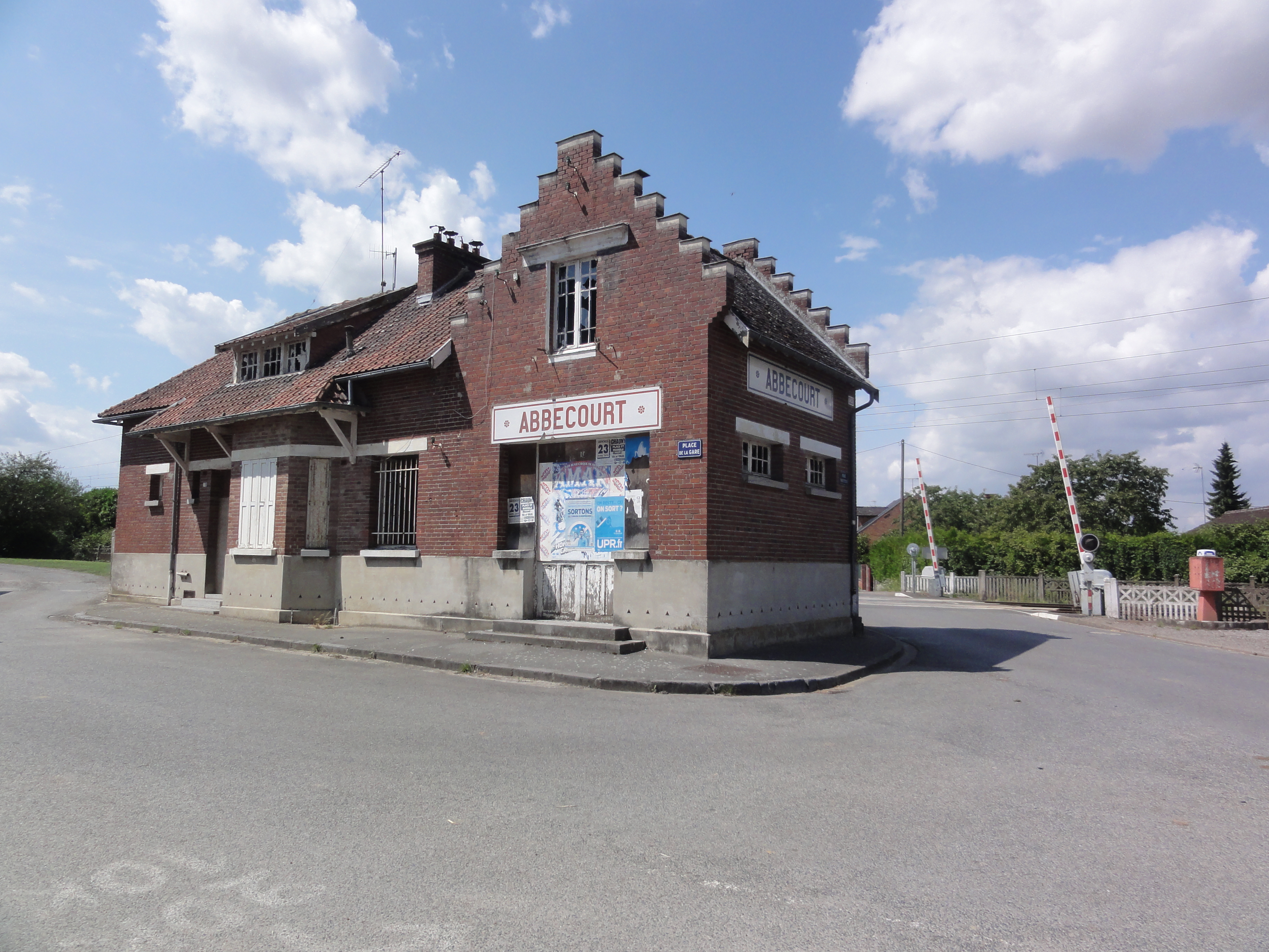 Abbécourt (Aisne) ancienne gare